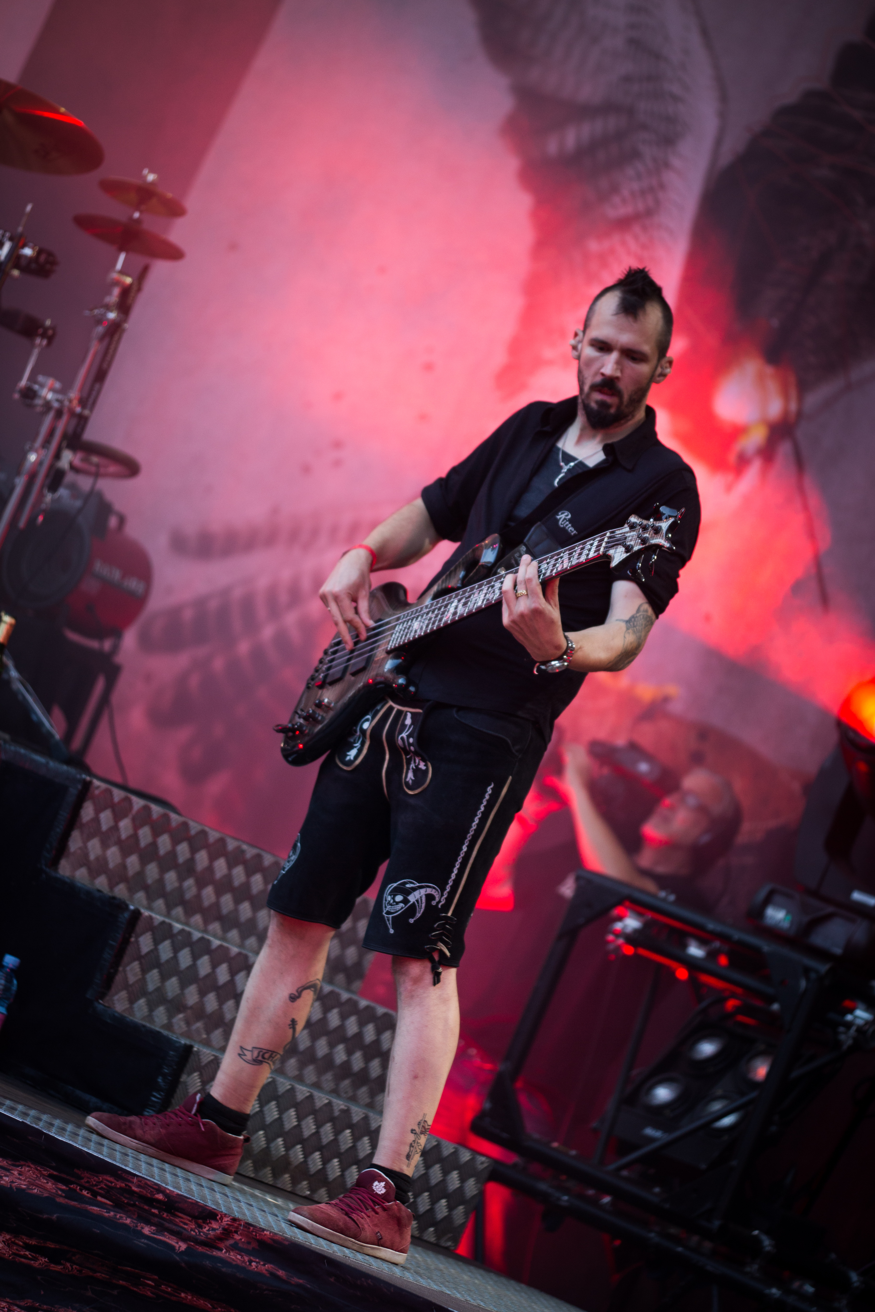 Schandmaul at the In Extremo aniversary - 20 Wahre Jahre